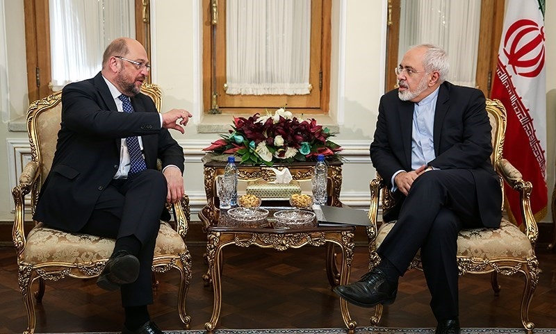 Iranian Foreign Minister Mohammad Javad Zarif meeting with European Parliament president Martin Schulz